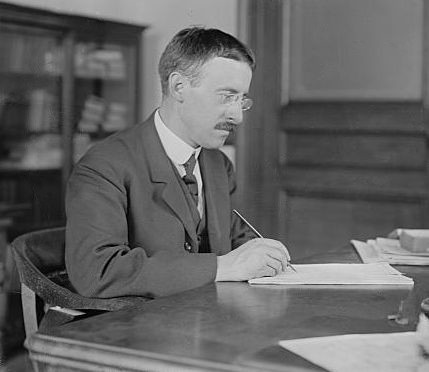 Henry L. Stimson, an American statesman